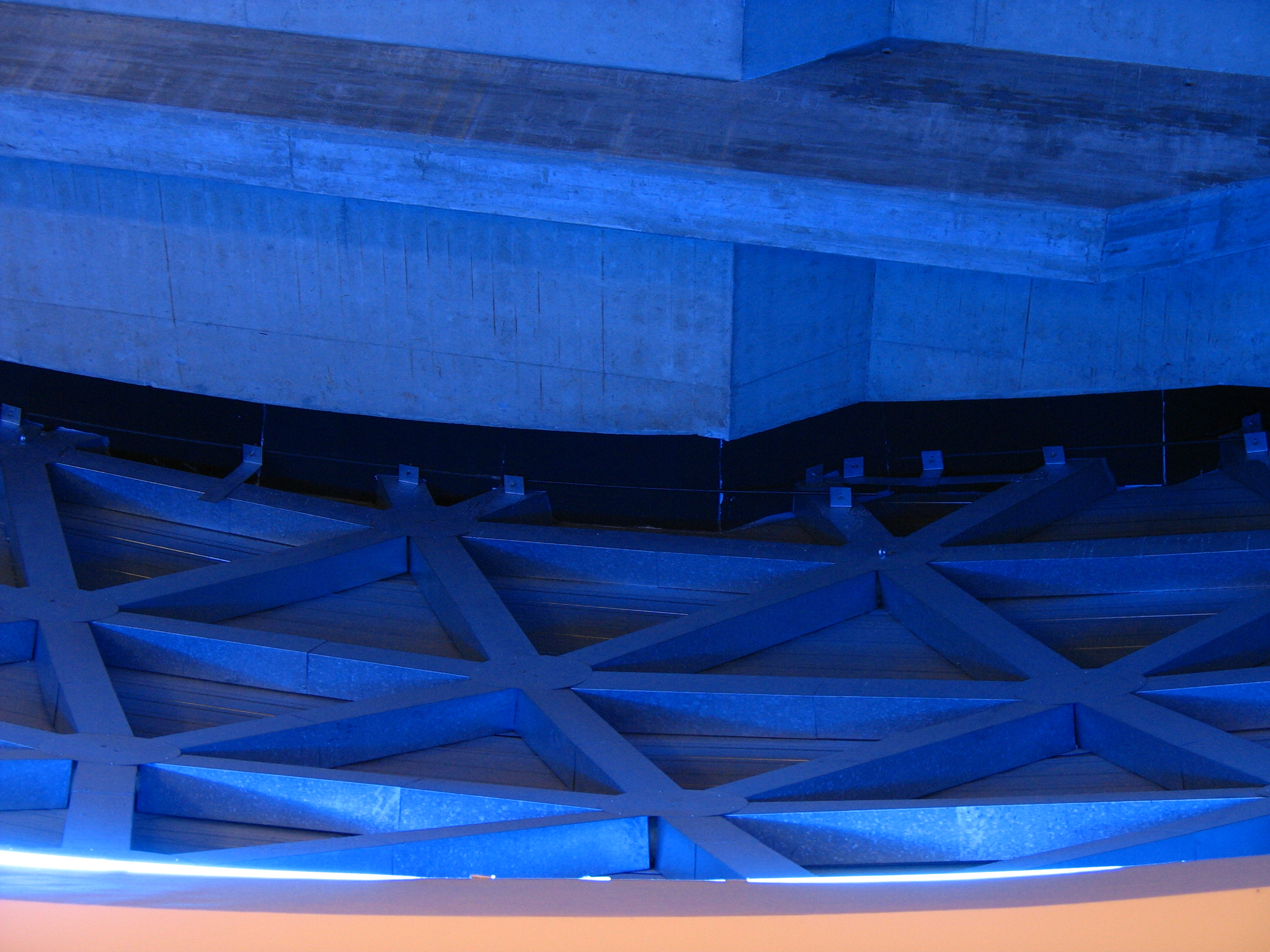 Internal structure of La Géode at Cité des sciences et de l'industrie in Paris, Parc de la Villette.